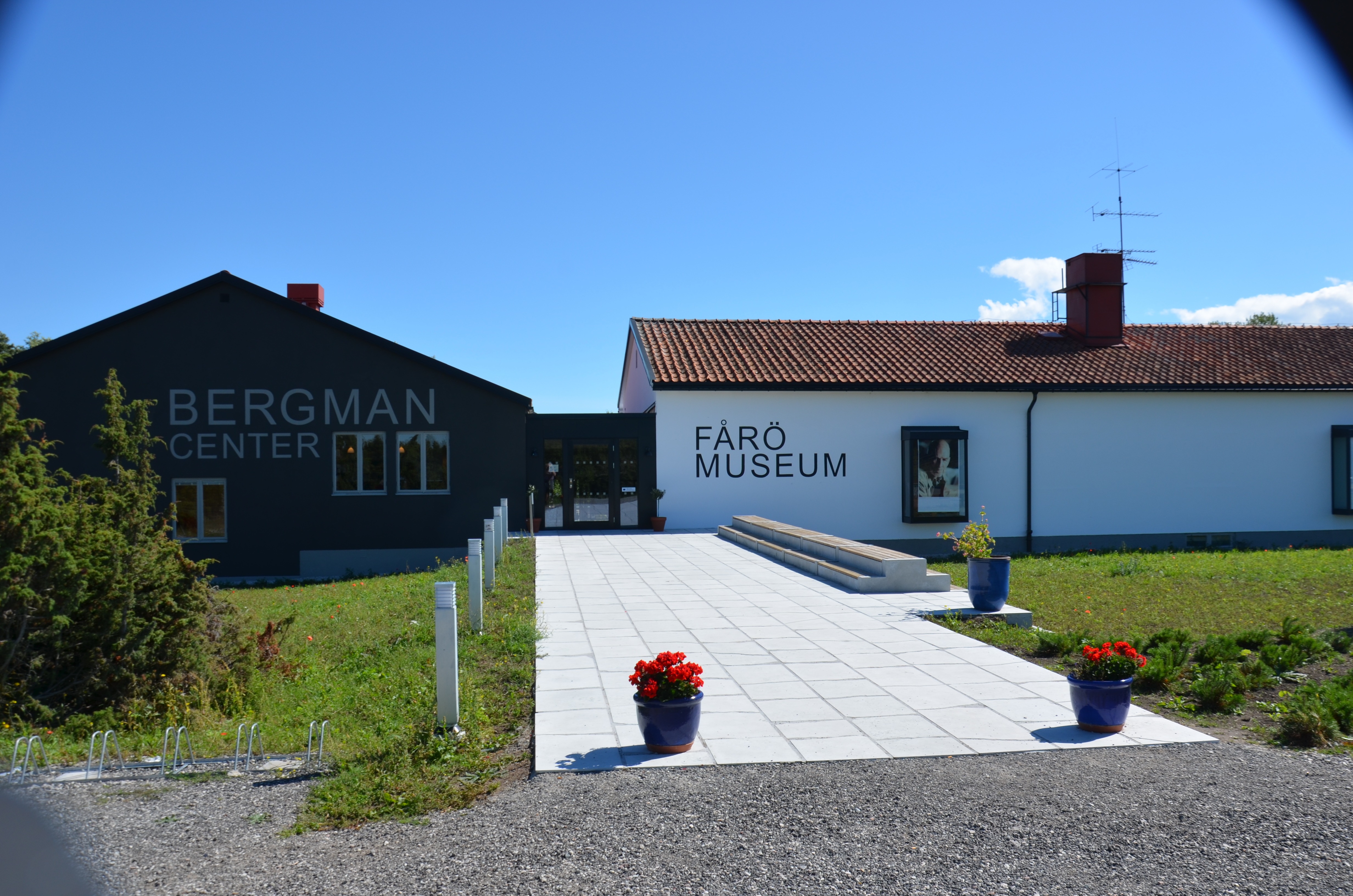 Bergmancenter på Fårö